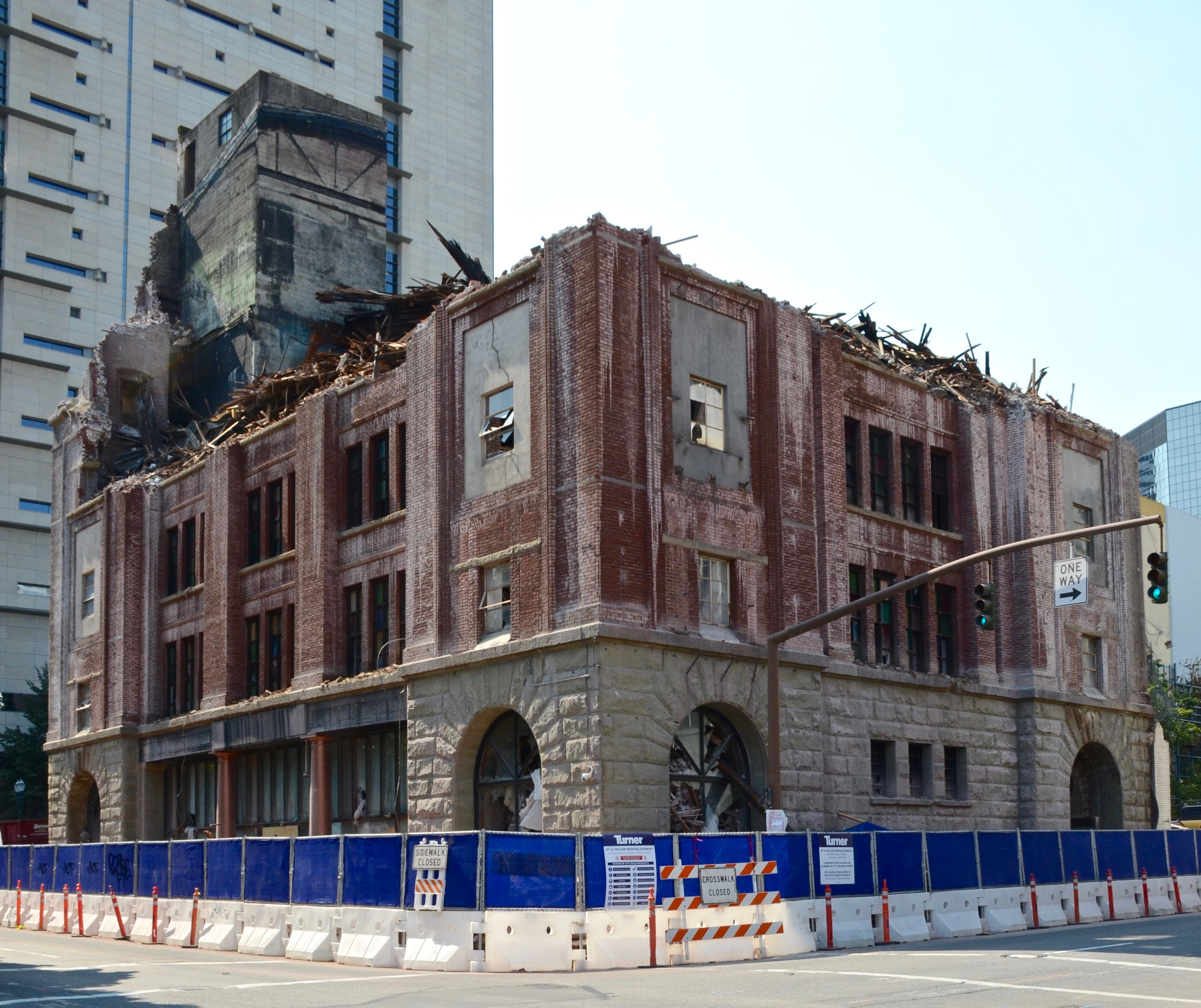 Demolition under way on the former Ancient Order of United Workmen Temple (built in 1892), in downtown Portland, Oregon, in September 2017. This view is from the east-northeast, from across the intersection of 2nd and Taylor.